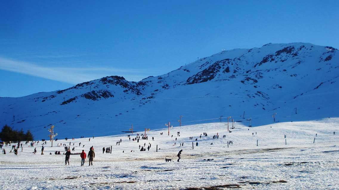 Oukaimeden skiing park, Morocco.